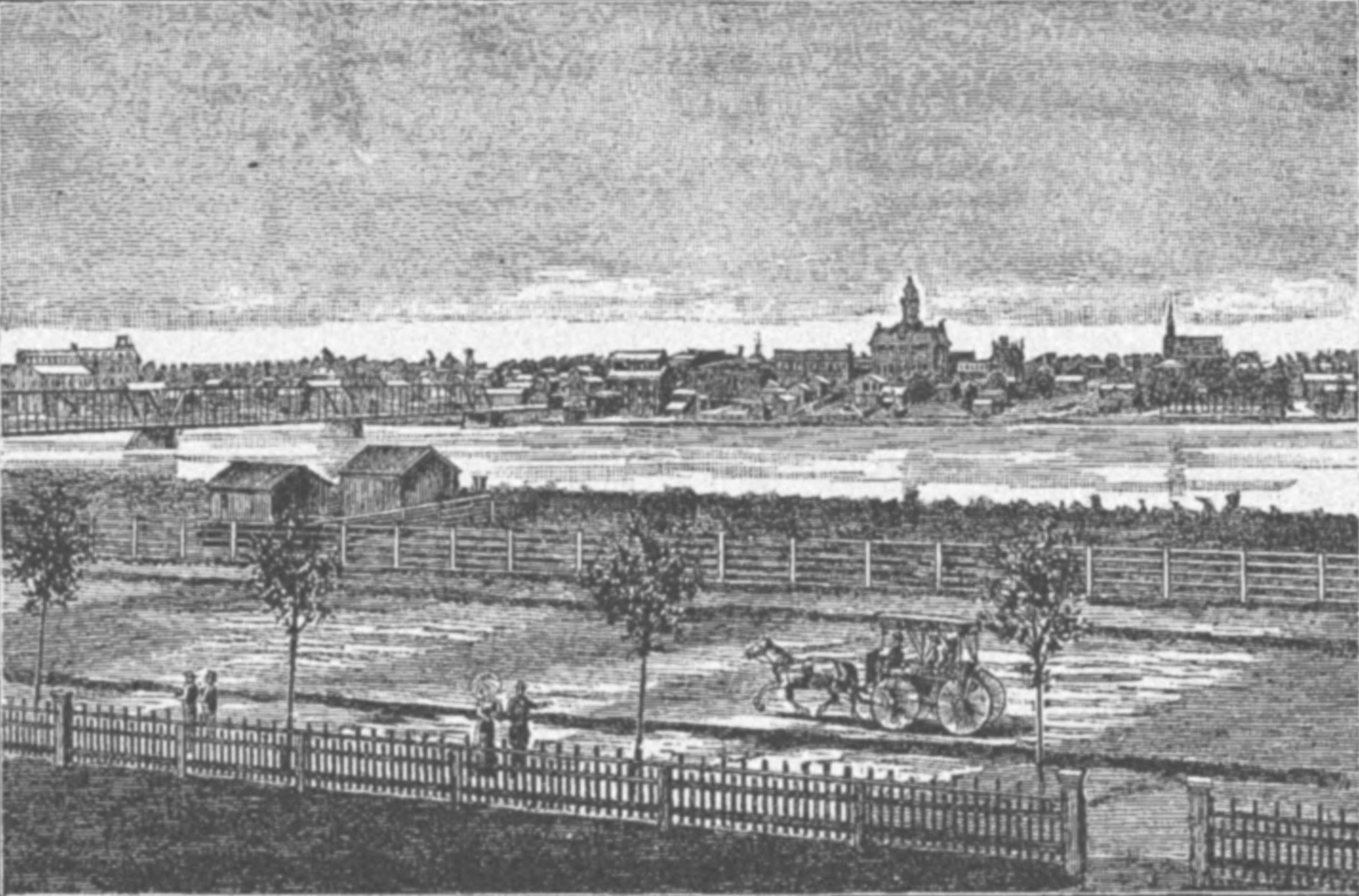 Title: Historical Collections of Ohio: An Encyclopedia of the State ; History Both General and Local, Geography with Descriptions of Its Counties, Cities and Villages, Its Agricultural, Manufacturing, Mining and Business Development, Sketches of Eminent and Interesting Characters, Etc., with Notes of a Tour over It in 1886 V 2 Year: 1891 (1890s) Authors: Howe, Henry, 1816-1893 Subjects: Ohio -- Biography Ohio -- History Ohio -- Local History Ohio -- Description and travel Publisher: Columbus : Henry Howe & Son View Book Page: Book Viewer About This Book: Catalog Entry View All Images: All Images From Book Click here to view book online to see this illustration in context in a browseable online version of this book. Text Appearing Before Image: ' Text Appearing After Image: HENRY COUNTY. tributed many of the cruelties charged uponhis brother Simon; yet he was caressed byProctor and Elliott. Simon was adopted by the Senecas, andbecame an expert hunter. In Kentucky andOhio he sustained the character of an unre-lenting barbarian. Sixty years ago, with hisname was associated everything cruel andfiendlike. To the women and children, inparticular, nothing was more terrifying thanthe name of Simon Grirty. At that time itwas believed by many that he had fled fromjustice and sought refuge among the Indians,determined to do his countrymen all the harmin his power. This impression was an erro-neous one. Being adopted by the Indians,he joined them in their wars, and conformedto their usages. This was the education hehad received, and their foes were his. Al-though trained in all his pursuits as an In-dian, it is said to be a fact susceptible of proof that, through his importunities, many pris-oners were saved from death. His influencewas great, and when he chose to